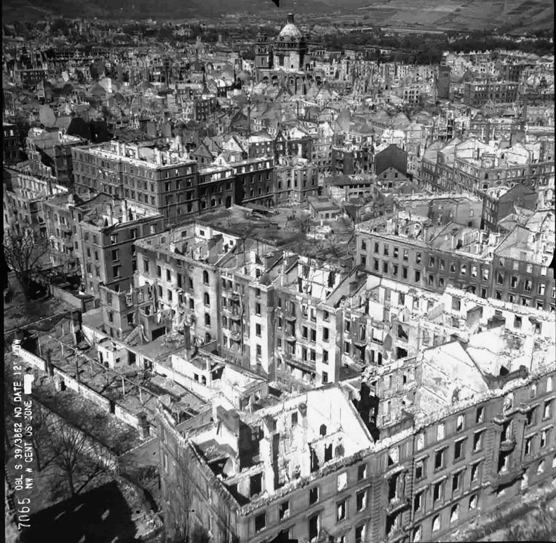 Aerial photo of the inner city of the destroyed Würzburg in autumn 1945, taken from the east